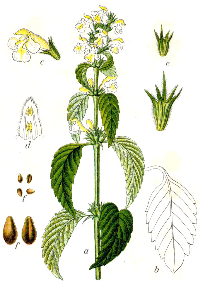 Galeopsis segetum Neck., syn. Galeopsis ochroleuca Lam. Original Caption Tannessel, Galeopsis ochroleuca